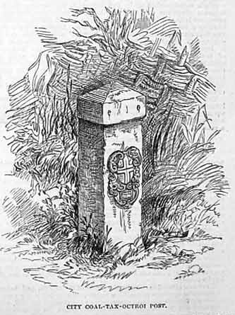 The Illustrated London News, 1853, p. 229